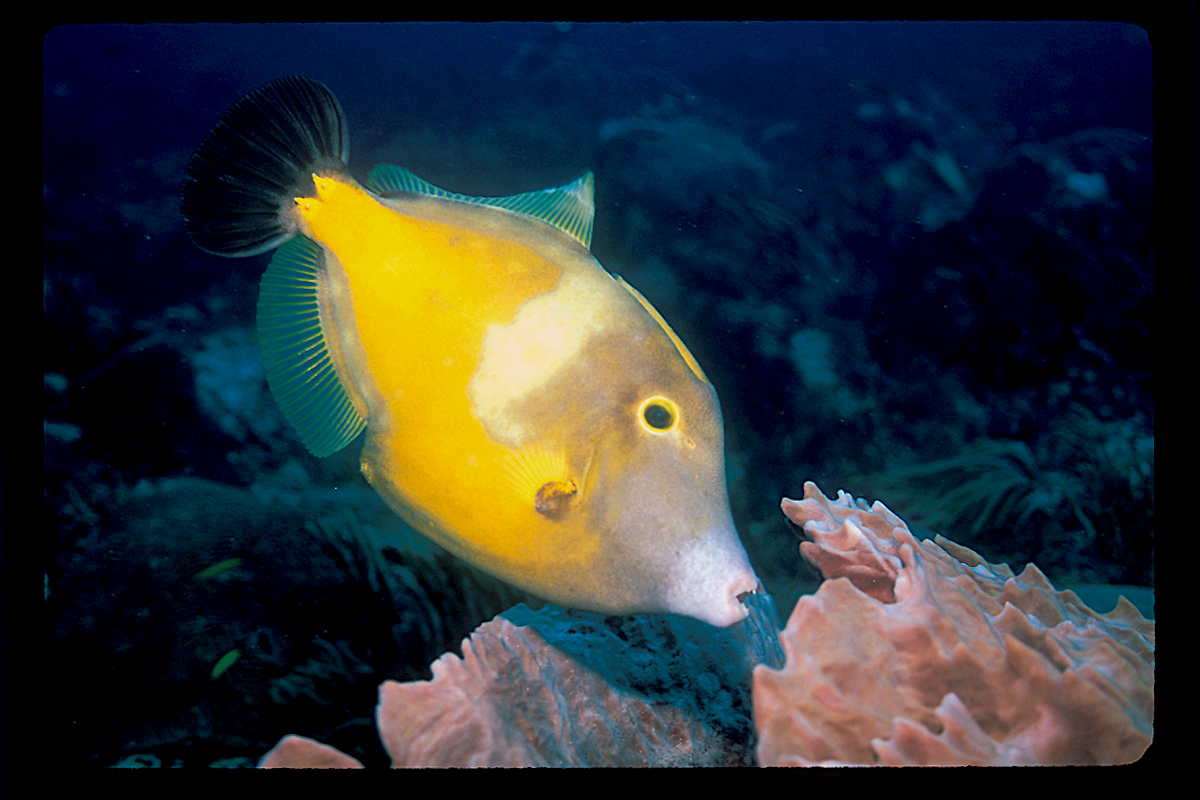 A rather flambouyant Whitespot Filefish (Cantherhines macrocerus) is wondering what the funny looking guy with the underwater camera is up to. Playa del Carmen, Mexico